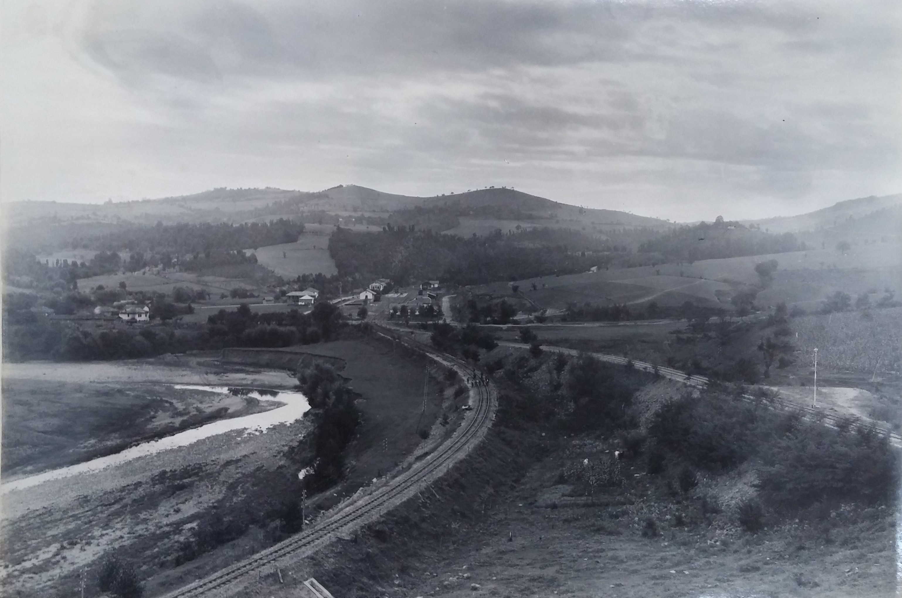 Construction of the railway line Veliko Tarnovo - Tryavna - Borushtitsa. Tsareva Livada station.